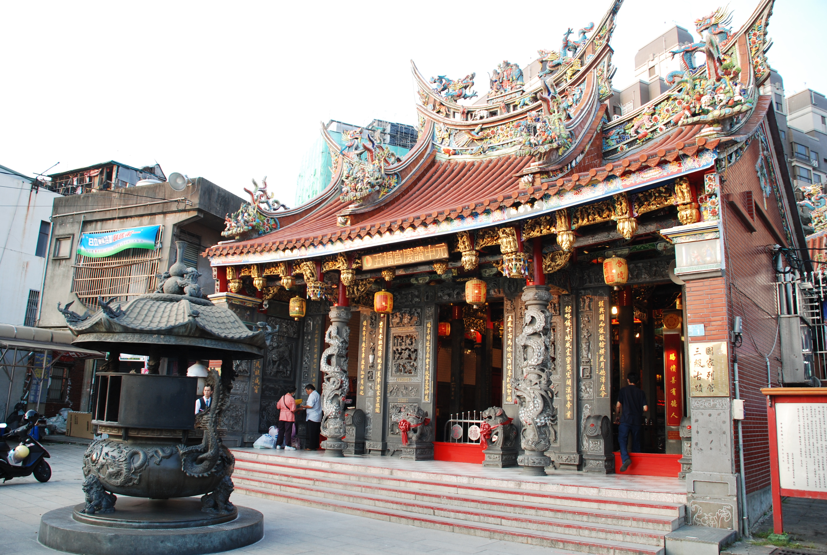 Wufu Temple in Taoyuen, Taiwan